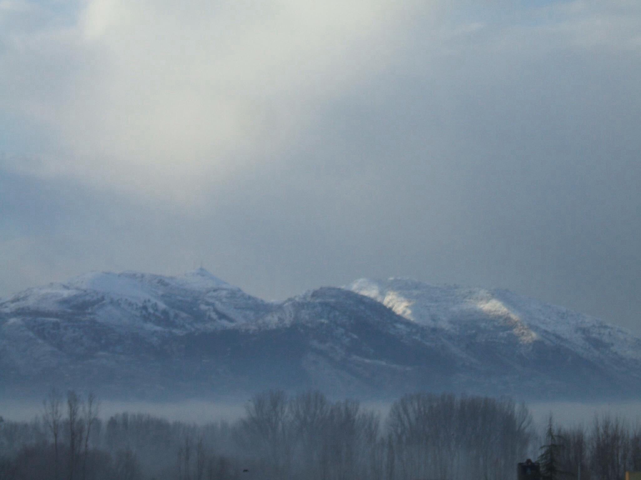 A shot during winter season 2012 in Abbottabad.